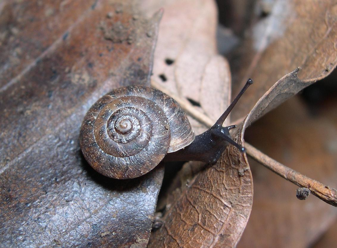 Aegista tokyoensis Sorita, 1980 (Pulmonata:Stylommatophora:Bradybaenidae), Nerima, Tokyo, Honshu, Japan. A small species of land snail (shell diameter:8-9mm) found in the leaf litter of the Kantō region and adjacent area. トウキョウコオオベソマイマイ（オナジマイマイ科）。東京都練馬区。落ち葉層に生息。 Reference: Eiichi Sorita, A new species of the Genus Aegista (s.s.) from the Koishikawa Botanical Garden, Tokyo. Venus (Jap. Jour. Malac.) 39(3):142-147, 1980.